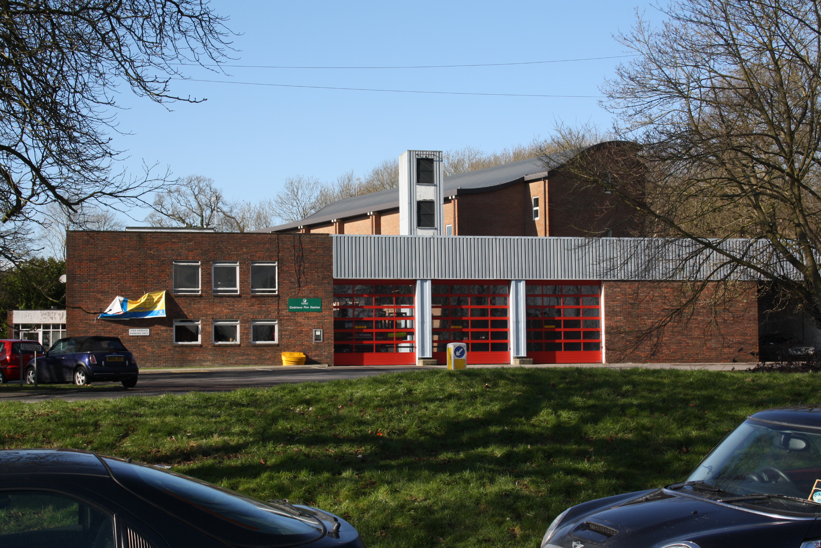 Godstone, Surrey fire station.